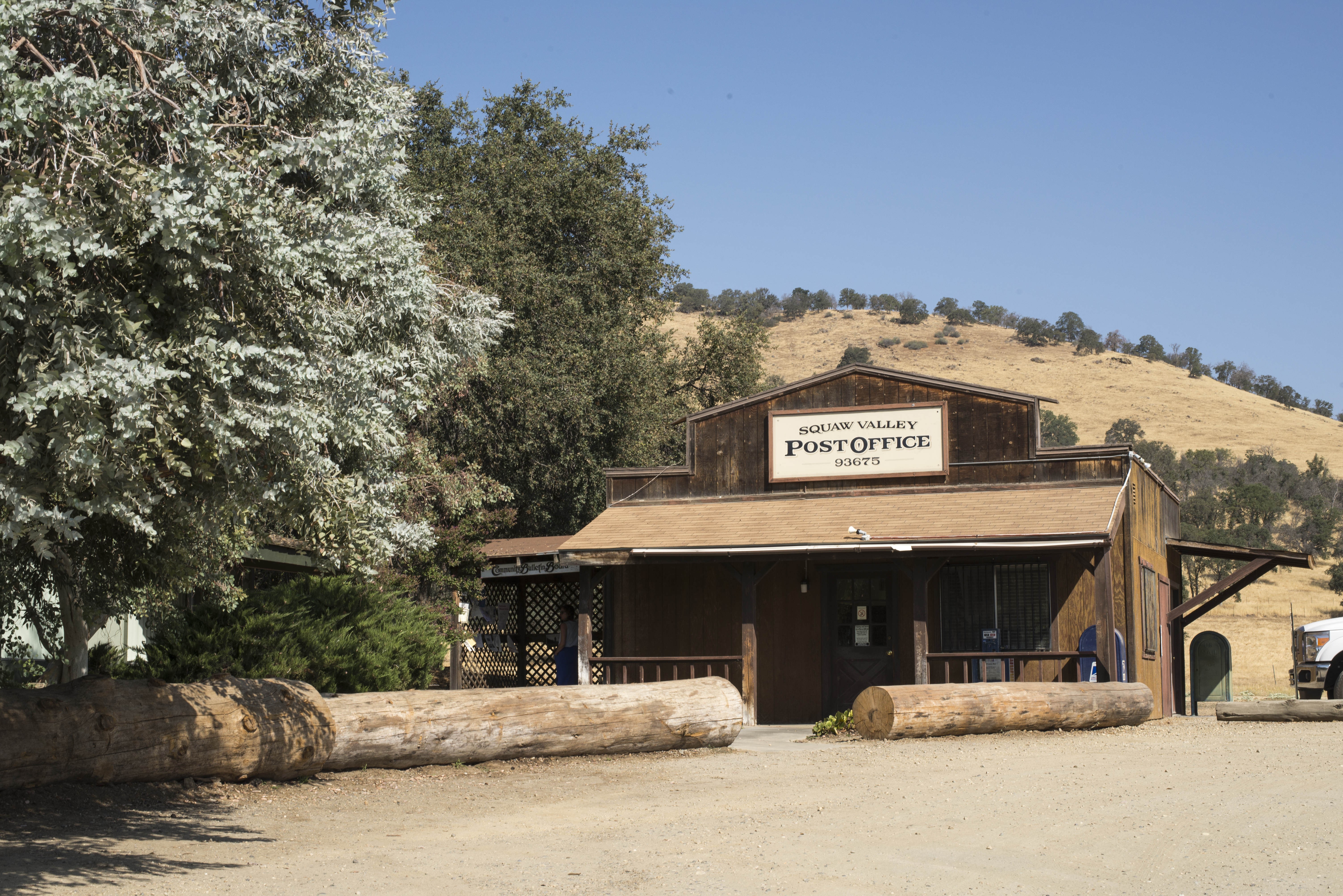 Post Office in Squaw Valley, California, August 2018